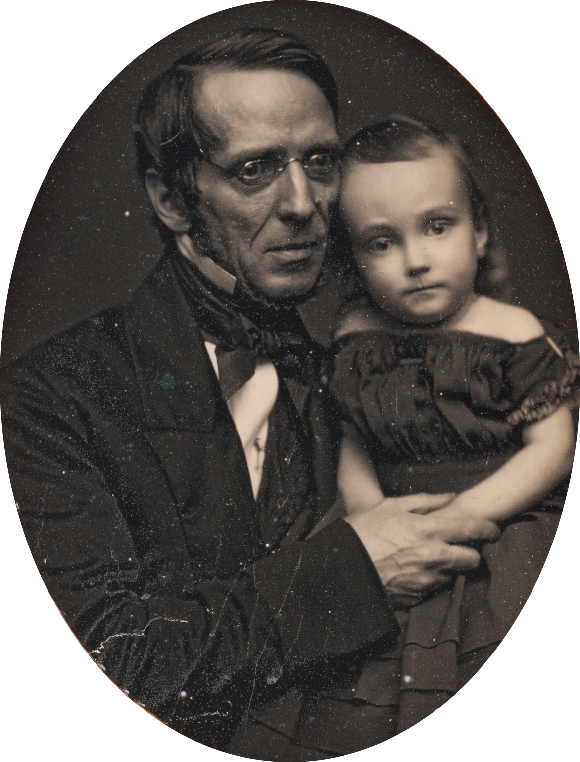 Sixth plate daguerreotype of Peter Cooper (1791-1883)